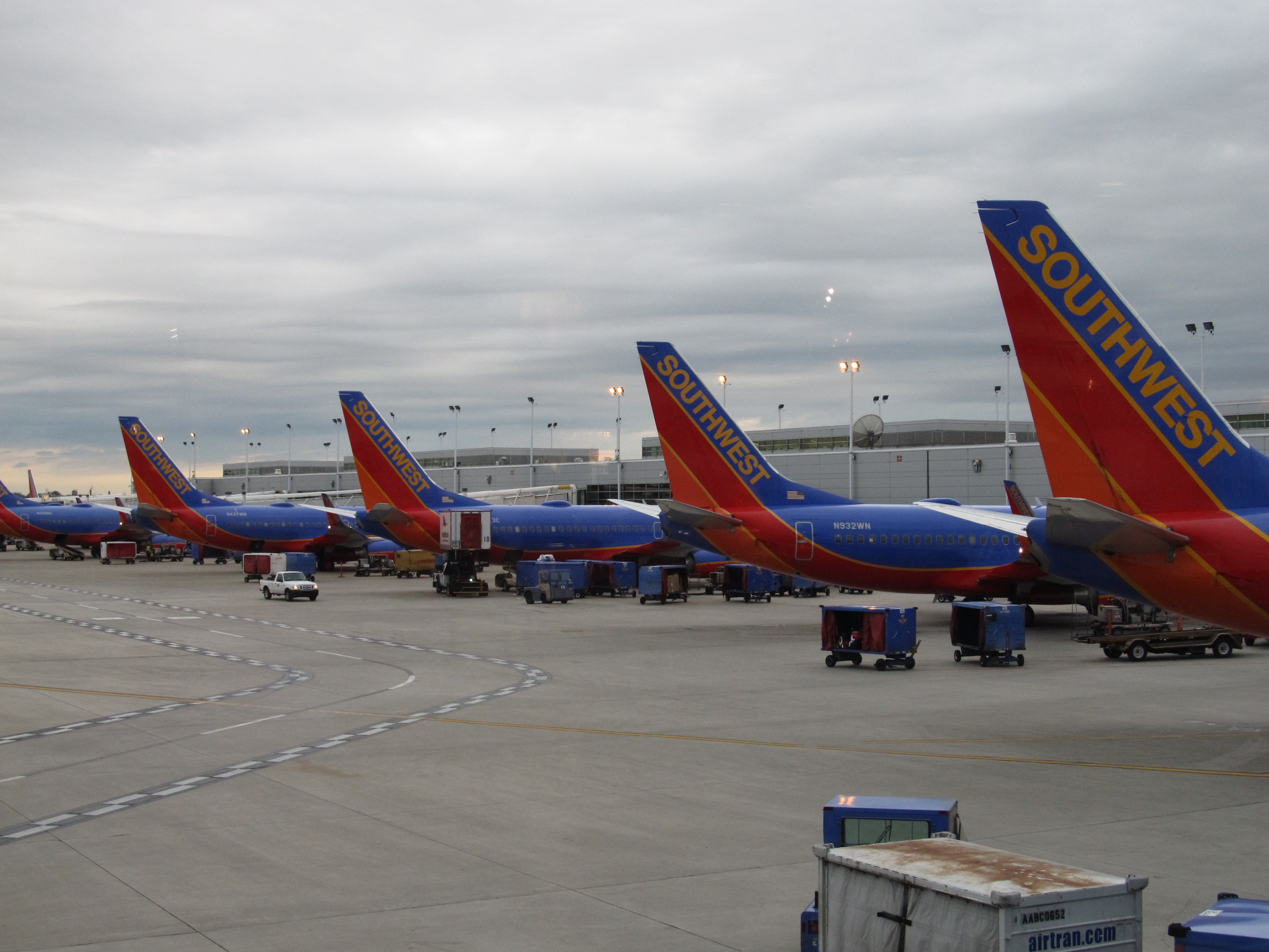 Chicago Midway International Airport is an airport in Chicago, Illinois, United States, located on the city's southwest side, eight miles (13 km) from Chicago's Loop. Dominated by low-cost carrier Southwest Airlines, Midway is the Dallas-based carrier's largest focus city as of 2011. Midway Airport is the second largest passenger airport in the Chicago metropolitan area, as well as the state of Illinois, after Chicago O'Hare International Airport.